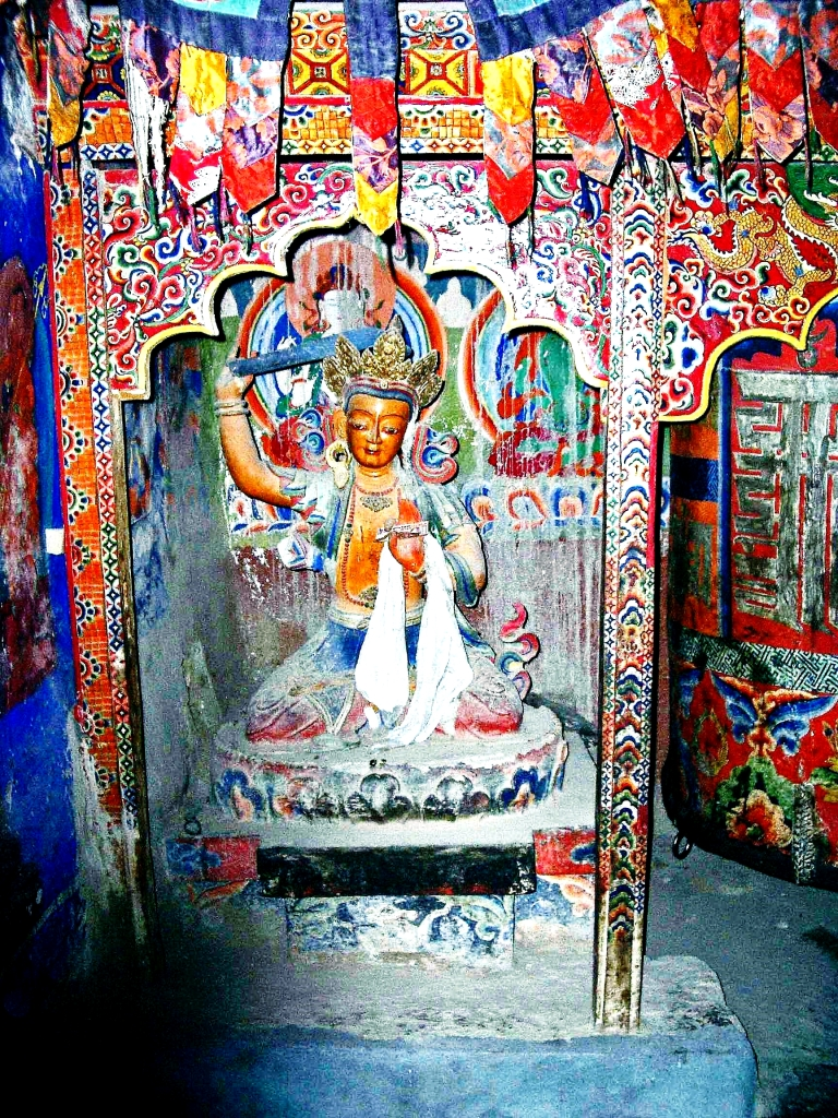 I took this photo on a visit to Spiti in 2004.